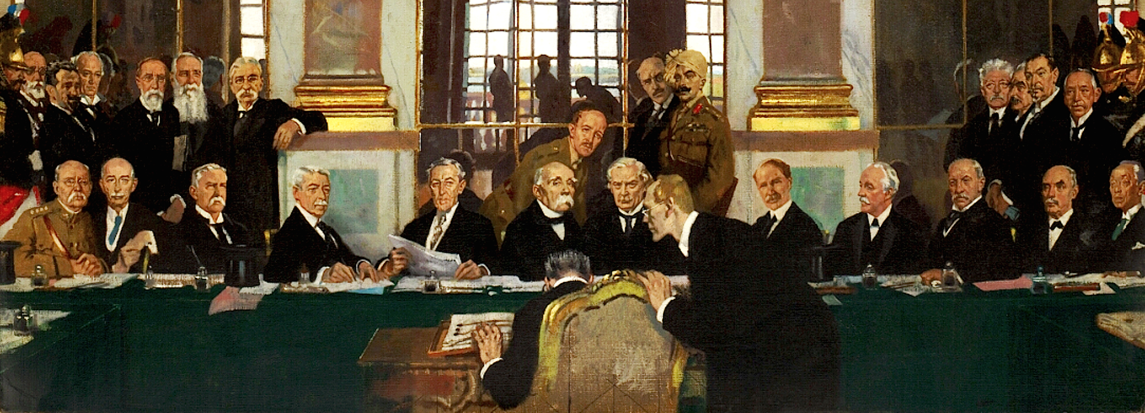 A view of the interior of the Hall of Mirrors at Versailles, with the heads of state sitting and standing before a long table. Front Row: Dr Johannes Bell (Germany) signing with Herr Hermann Muller leaning over him Middle row (seated, left to right): General Tasker H Bliss, Col E M House, Mr Henry White, Mr Robert Lansing, President Woodrow Wilson (United States); M Georges Clemenceau (France); Mr D Lloyd George, Mr A Bonar Law, Mr Arthur J Balfour, Viscount Milner, Mr G N Barnes (Great Britain); The Marquis Saionzi (Japan) Back row (left to right): M Eleutherios Venizelos (Greece); Dr Affonso Costa (Portugal); Lord Riddell (British Press); Sir George E Foster (Canada); M Nikola Pachitch (Serbia); M Stephen Pichon (France); Col Sir Maurice Hankey, Mr Edwin S Montagu (Great Britain); the Maharajah of Bikaner, Major-General Sir Ganga Singh, (India); Signor Vittorio Emanuele Orlando (Italy); M Paul Hymans (Belgium); General Louis Botha (South Africa); Mr W M Hughes (Australia).